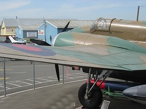 Handley Page Hampden displayed at the Canadian Museum of Flight from Langley (BC)